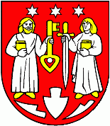 Coats of Arms of Bardoňovo